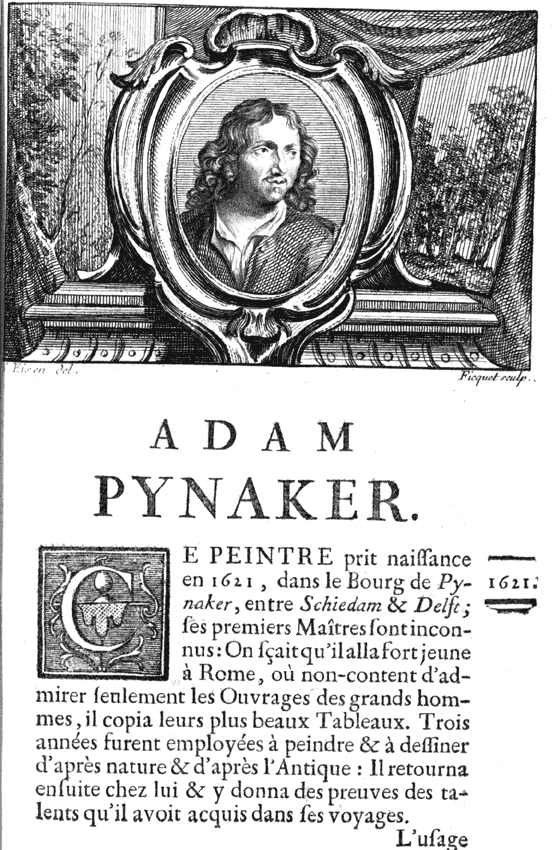 Book 2 of 4-volume painter biographies by Jean-Baptiste Descamps